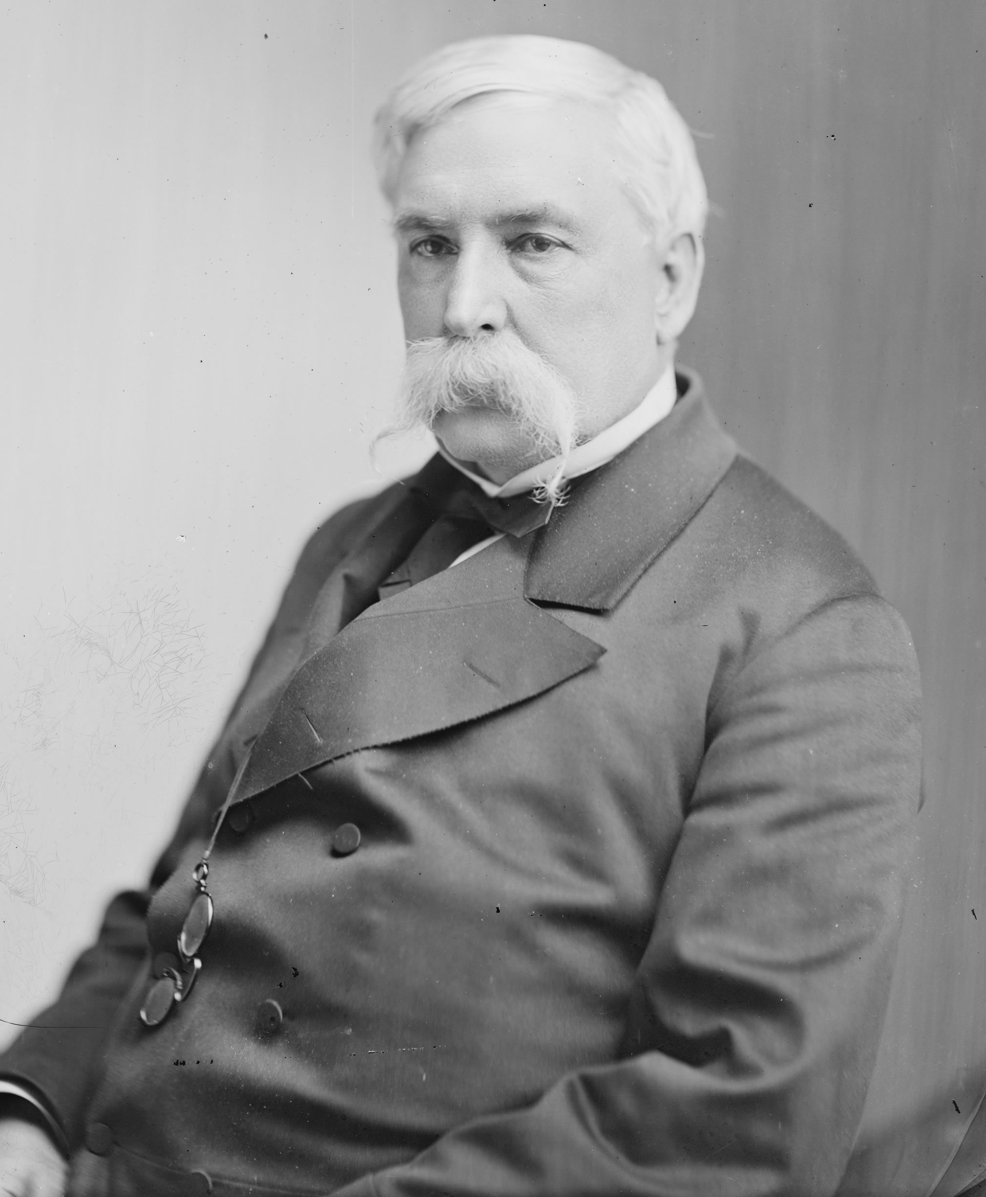 Thomas Swann (1809-1883), Governor of Maryland from January 10, 1866 to January 13, 1869. Swann is credited with leading the political effort to end slavery in Maryland, which required a state referendum because the Emancipation Proclamation did not apply to the state.